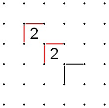 One or more diagonal 2s terminated by two filled lines pointing into them.